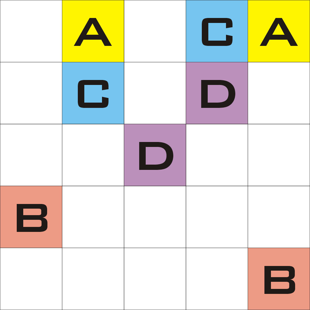 Arukone Logic Puzzle